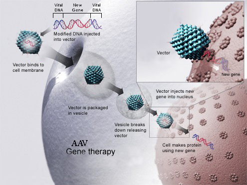 Derived from File:Gene_therapy.jpg NIH 26-Feb-2010